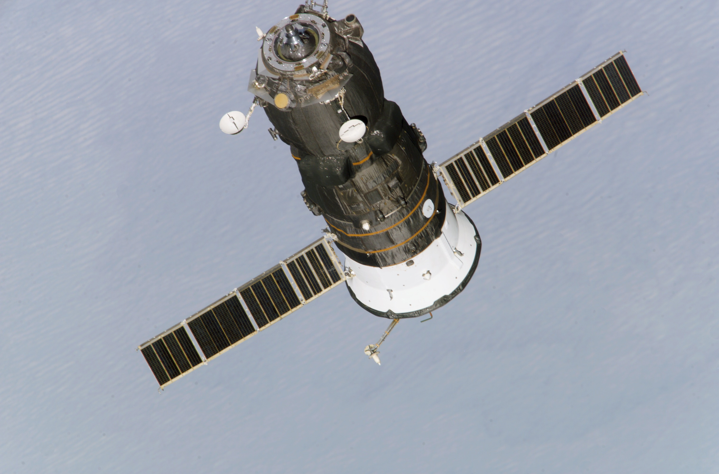 An unpiloted Progress 11 supply vehicle departs from the Pirs Docking Compartment on the International Space Station (ISS) at 2:42 p.m. (CDT) on September 4, 2003 for another month alone in orbit, as part of a Russian scientific experiment. It will then be deorbited with its load of trash and unneeded equipment and burn in the Earth's atmosphere.